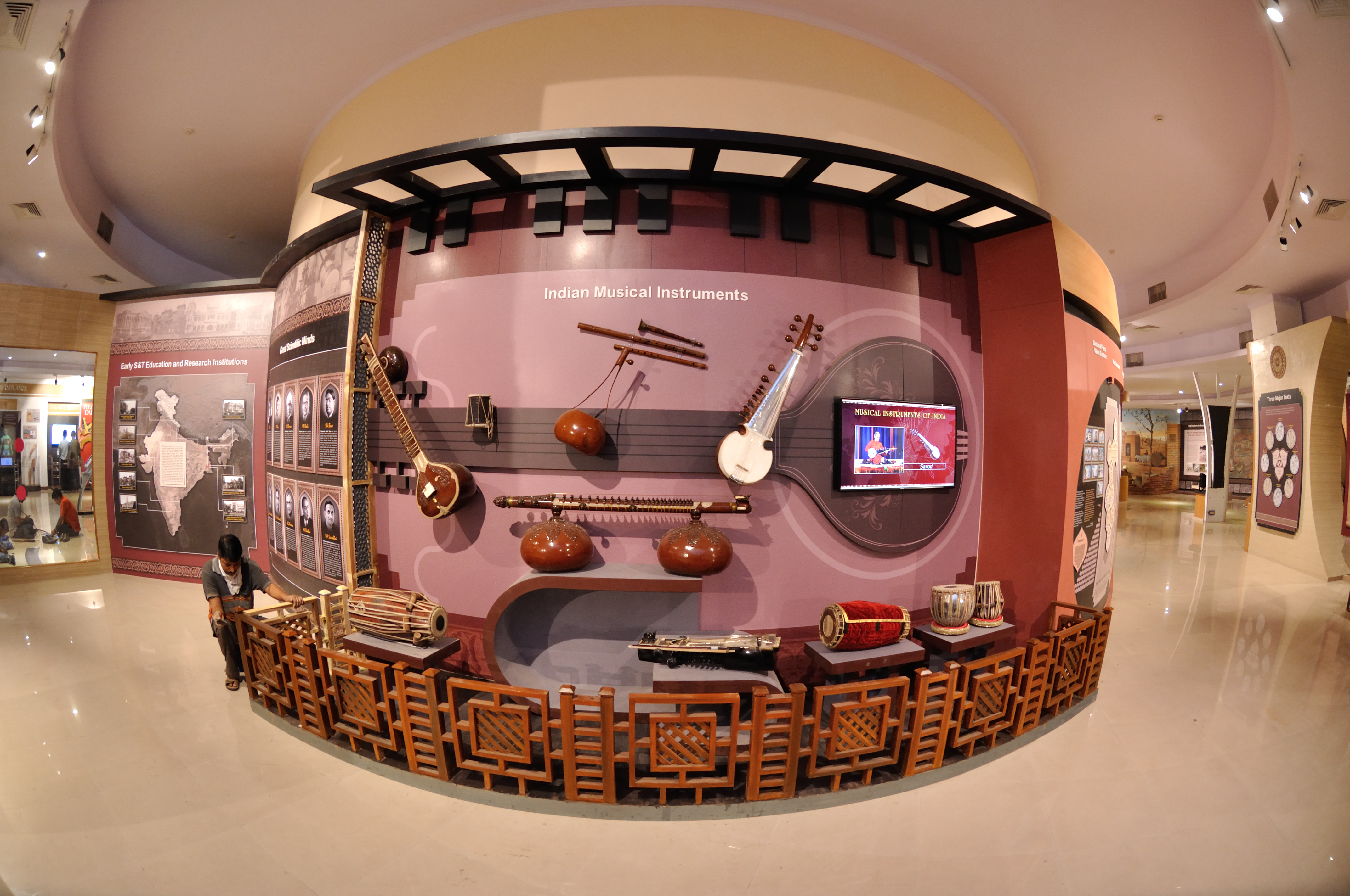 Photographed at the Science Exploration Hall, Science City, Ministry of Culture, Govt. of India. Kolkata.